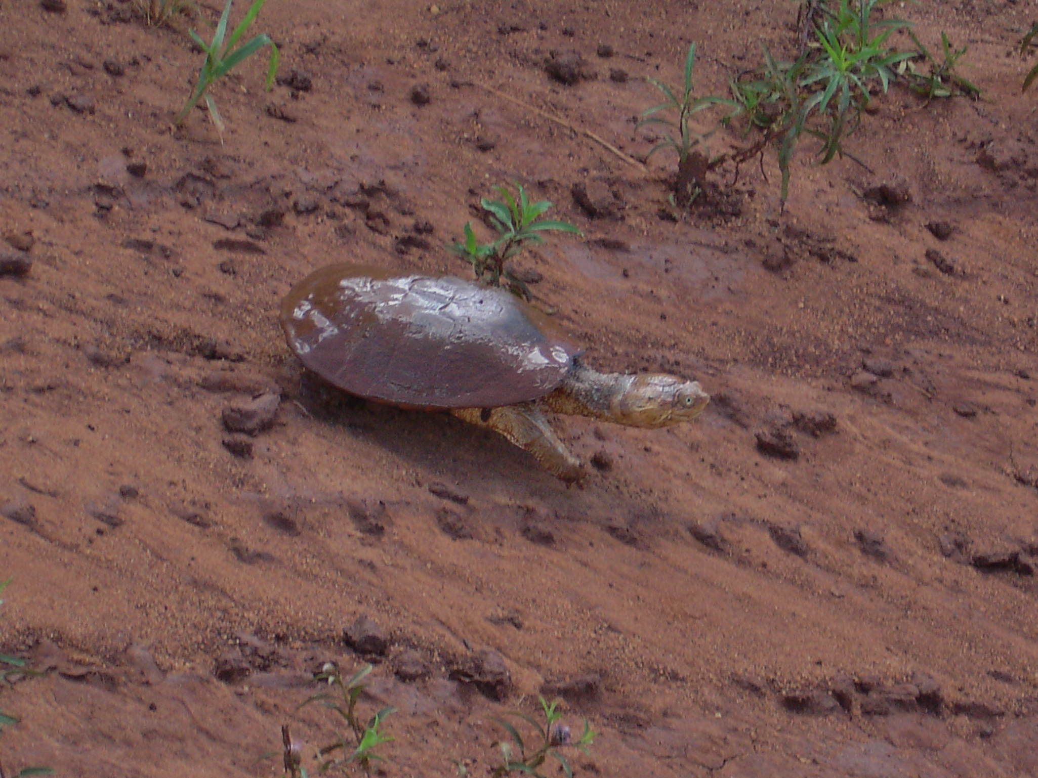 It emerged from a very muddy pool in the middle of the road within Tsavo West National Park.